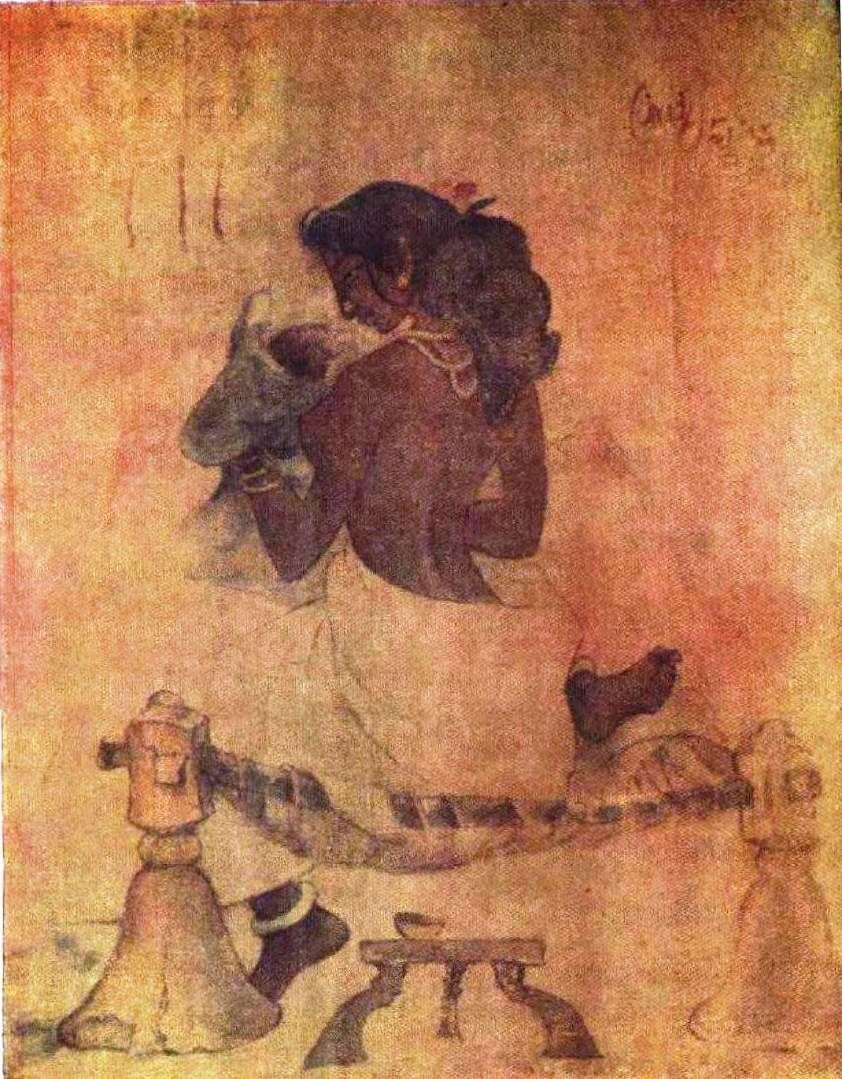 This paint is published in Bharathi Telugu Monthly Magazine in 1950 January Issue (Vol.27, Issue.1 Page 6)